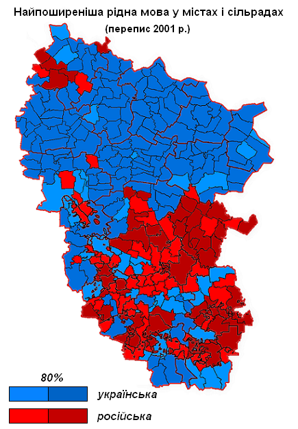 Native languages of Luhansk oblast according to 2001 census